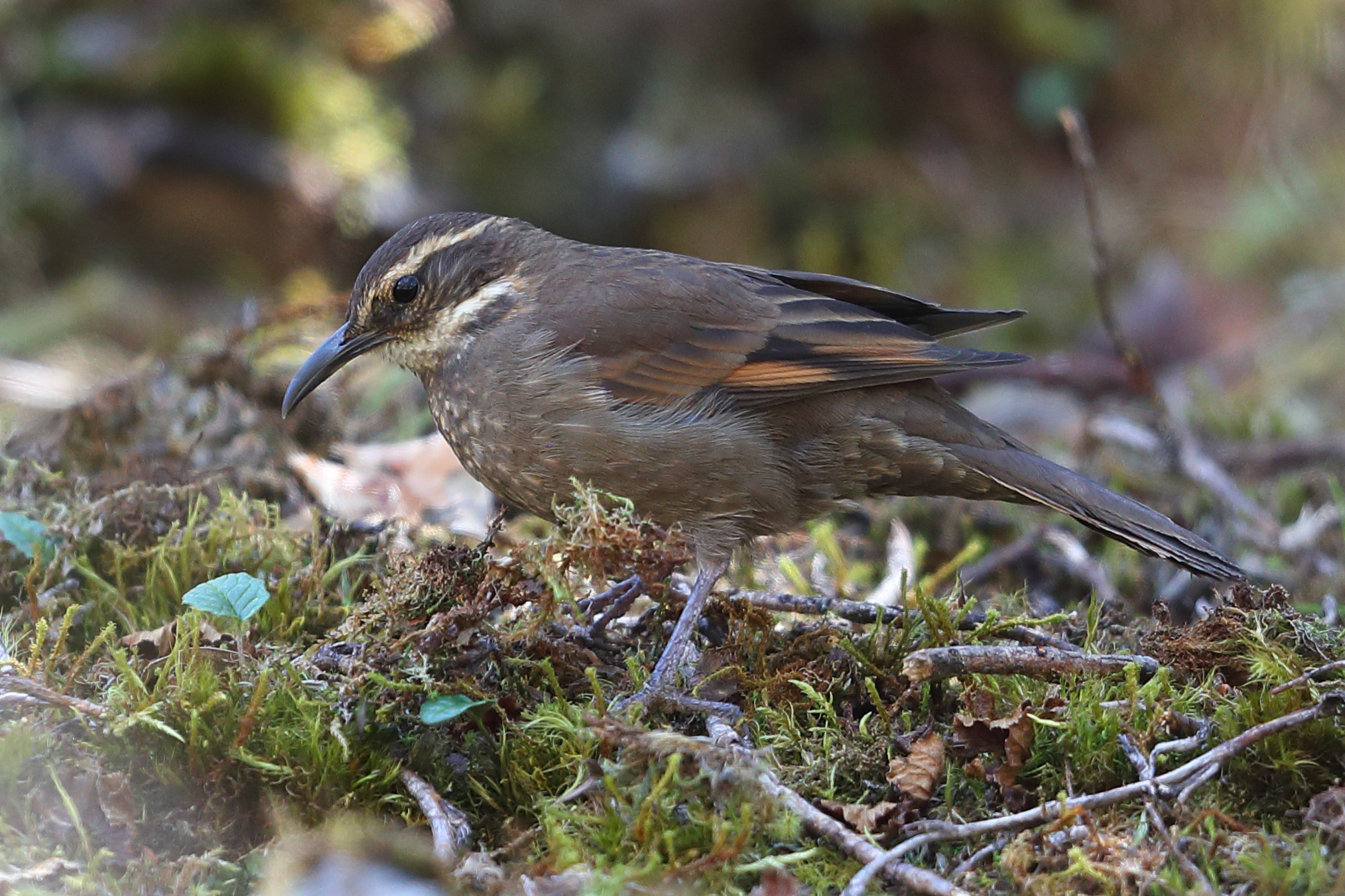 Royal Cinclodes; Abra Malaga, Cuzco, Peru